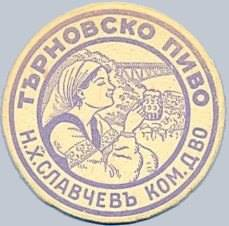 Tarnovsko pivo beermat.